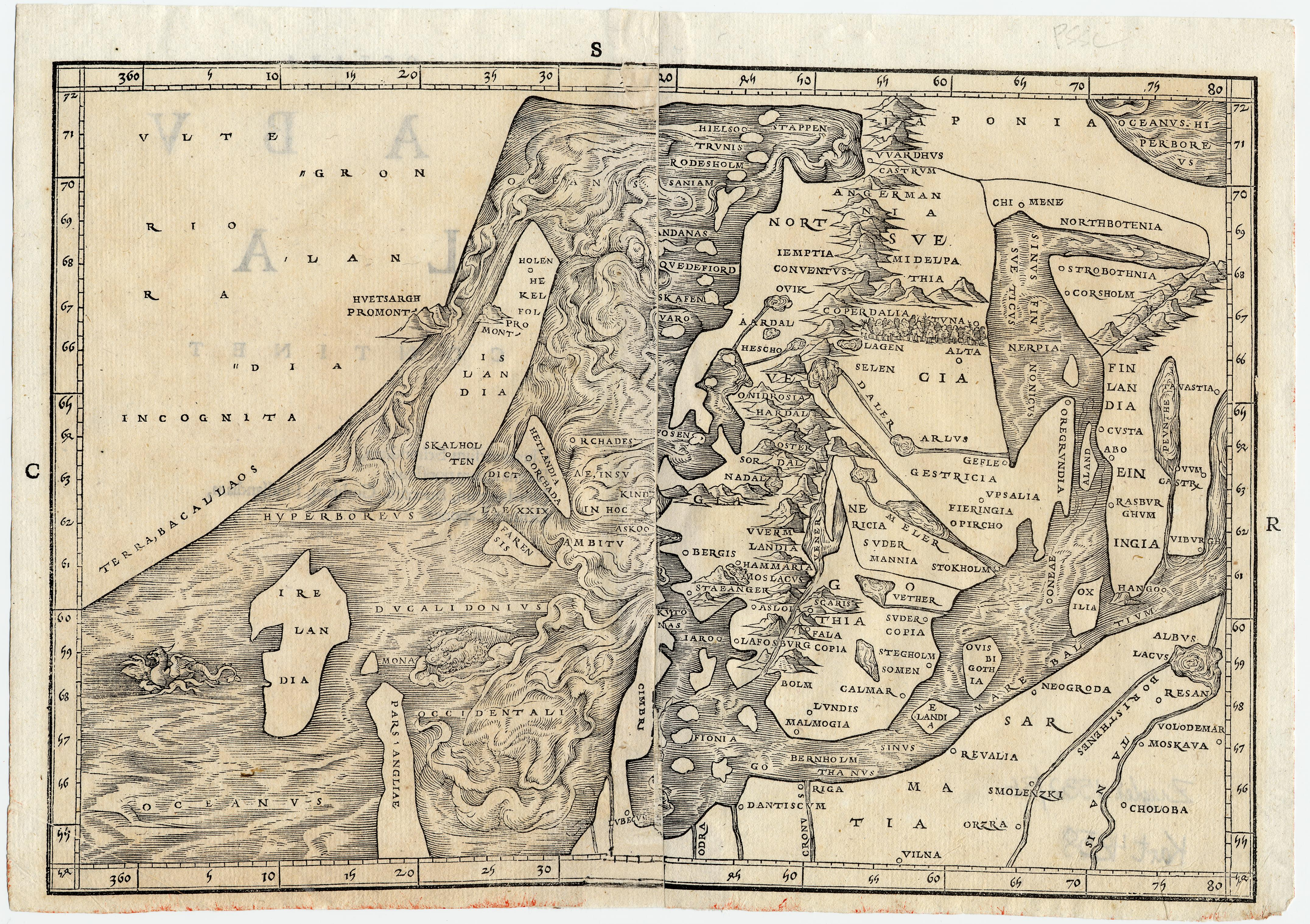 Tittel / Title: Tittel på kartets bakside: Octava tabula continent Cheronneesum Schondiam, Regna autem potissima, Norduegiam, Sueciam, Gothiam, Findlandiam, Gentem Lapones Beskrivelse / Description: Trykket nordenkart (tresnitt) fra boken Quae Intus Continentur... Dato / Date: 1532 eller 1536 Sted / Place: Strasbourg Kartograf / Cartographer: Jacob Ziegler Digital kopi av original / Digital copy of original: no-nb_krt_00086 Eier / Owner Institution: Nasjonalbiblioteket / National Library of Norway Lenke / Link: Bildesignatur / Image Number: Kart 4858